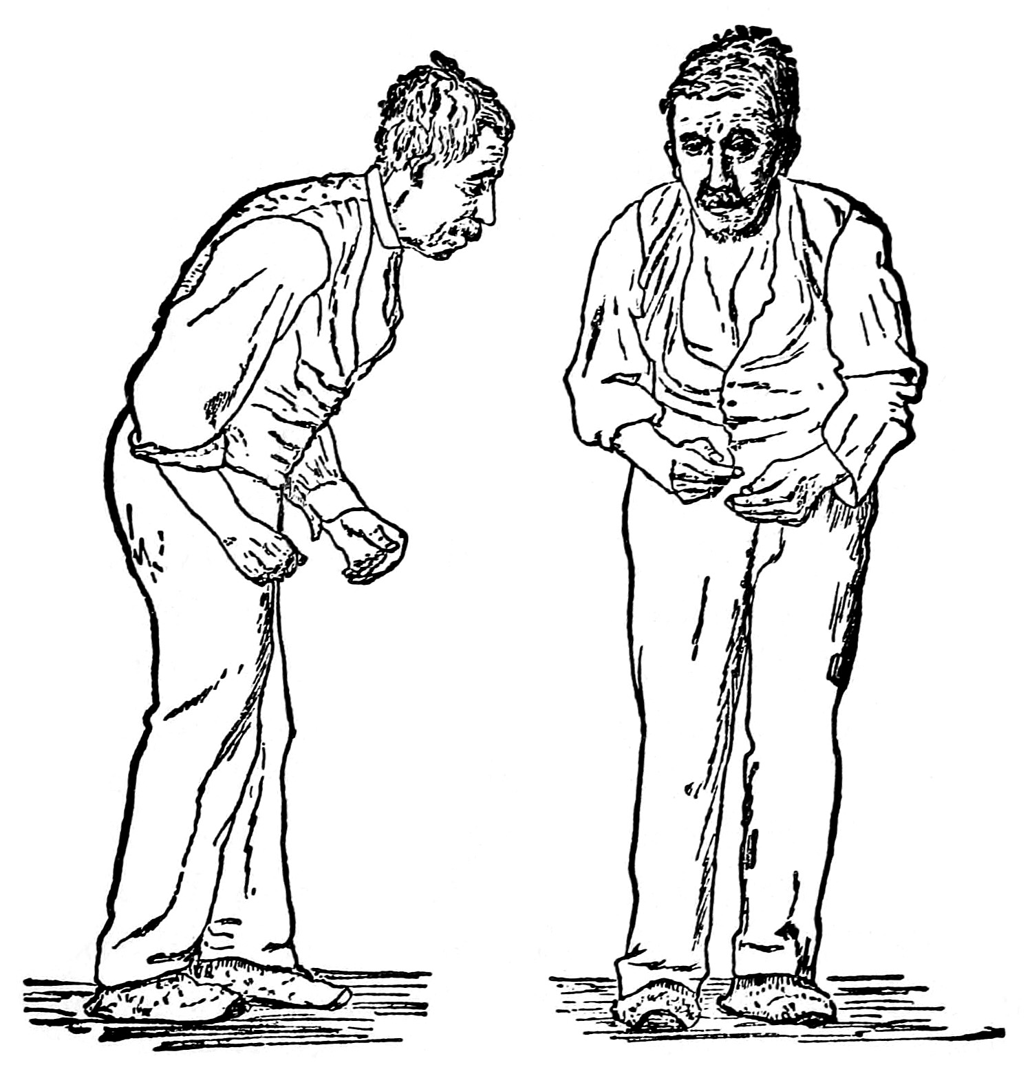 Front and side views of a man portrayed to be suffering from Parkinson's disease: Gower's rendition (of St Leger's image, unknown if it was a sketch or photograph) was first published in Gowers, William Richard (1886) "Fig 145 — Paralysis agitans. (After St. Leger.)" in A Manual of Diseases of the Nervous System, II, London: J. & A. Churchill., pp. p. 591 Retrieved on 24 March 2011.